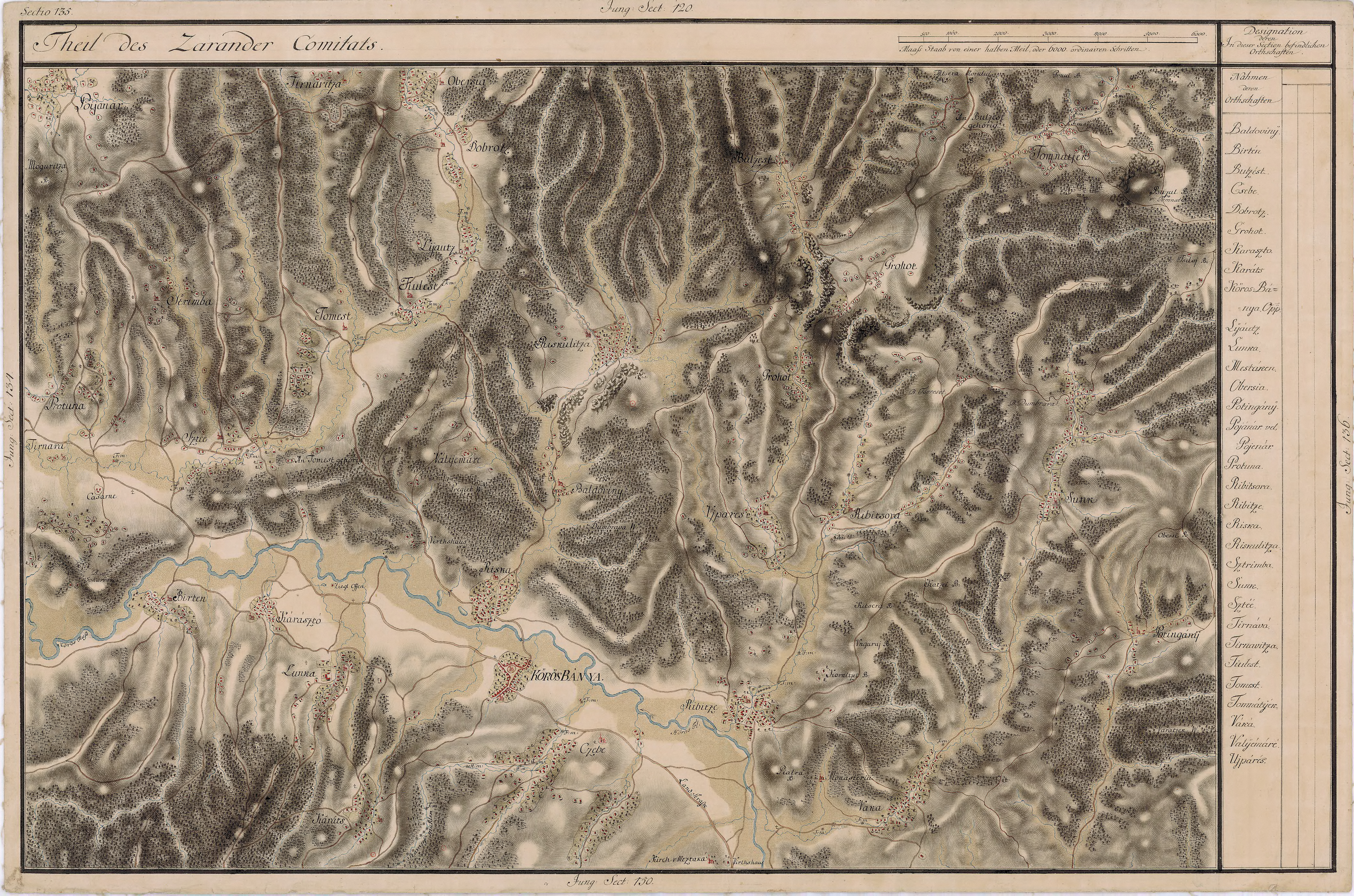 Grand Duchy of Transylvania, 1769-1773. Josephinische Landaufnahme pg.135